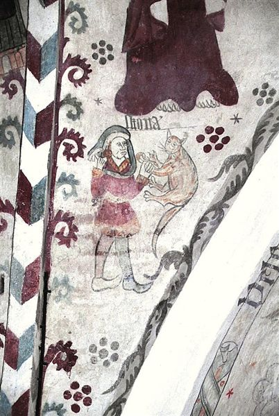 Tågerup Kirke (church)